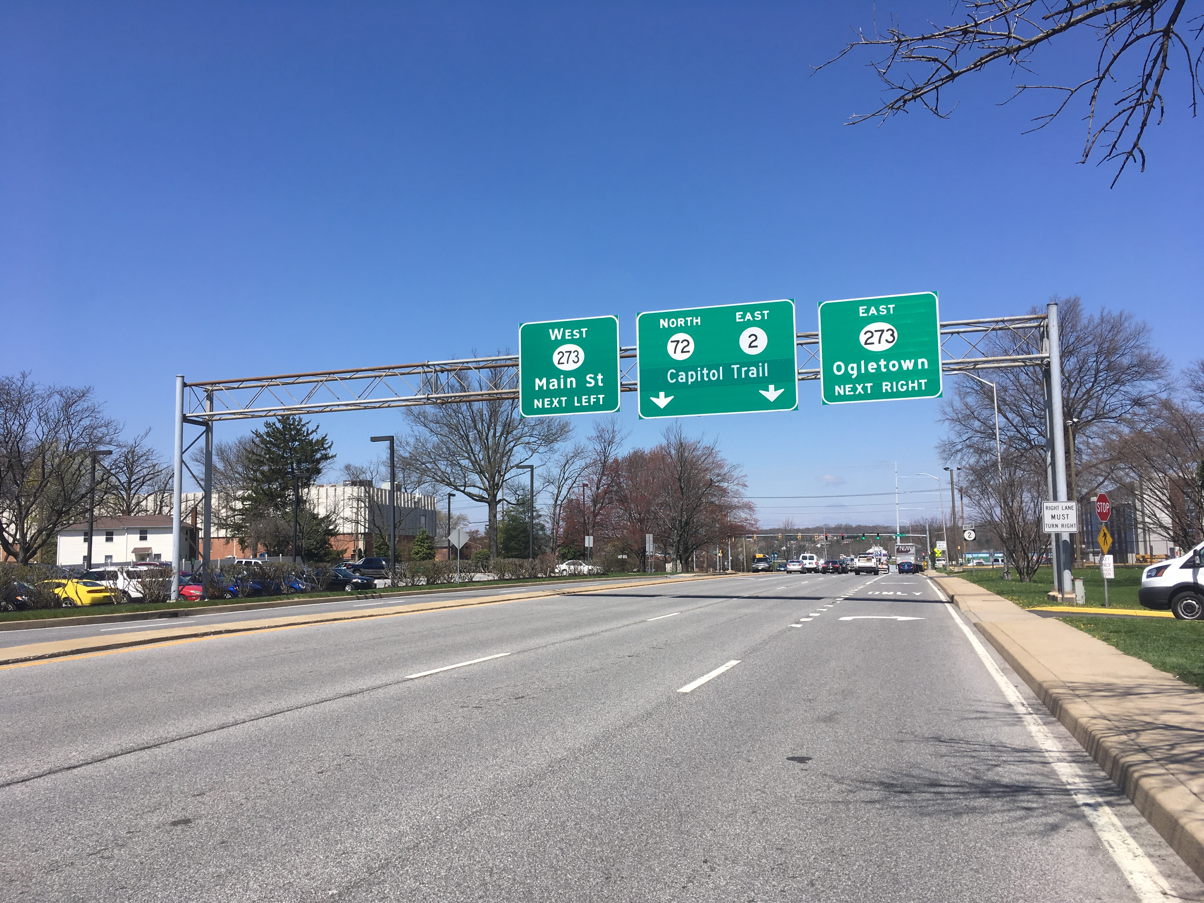 Northbound Delaware Route 72/eastbound Delaware Route 273 (Library Avenue) in Newark, Delaware approaching the intersection with westbound Delaware Route 273 (East Main Street)/Ogletown Road , which carries both directions of Delaware Route 273. Delaware Route 2 begins at this intersection.